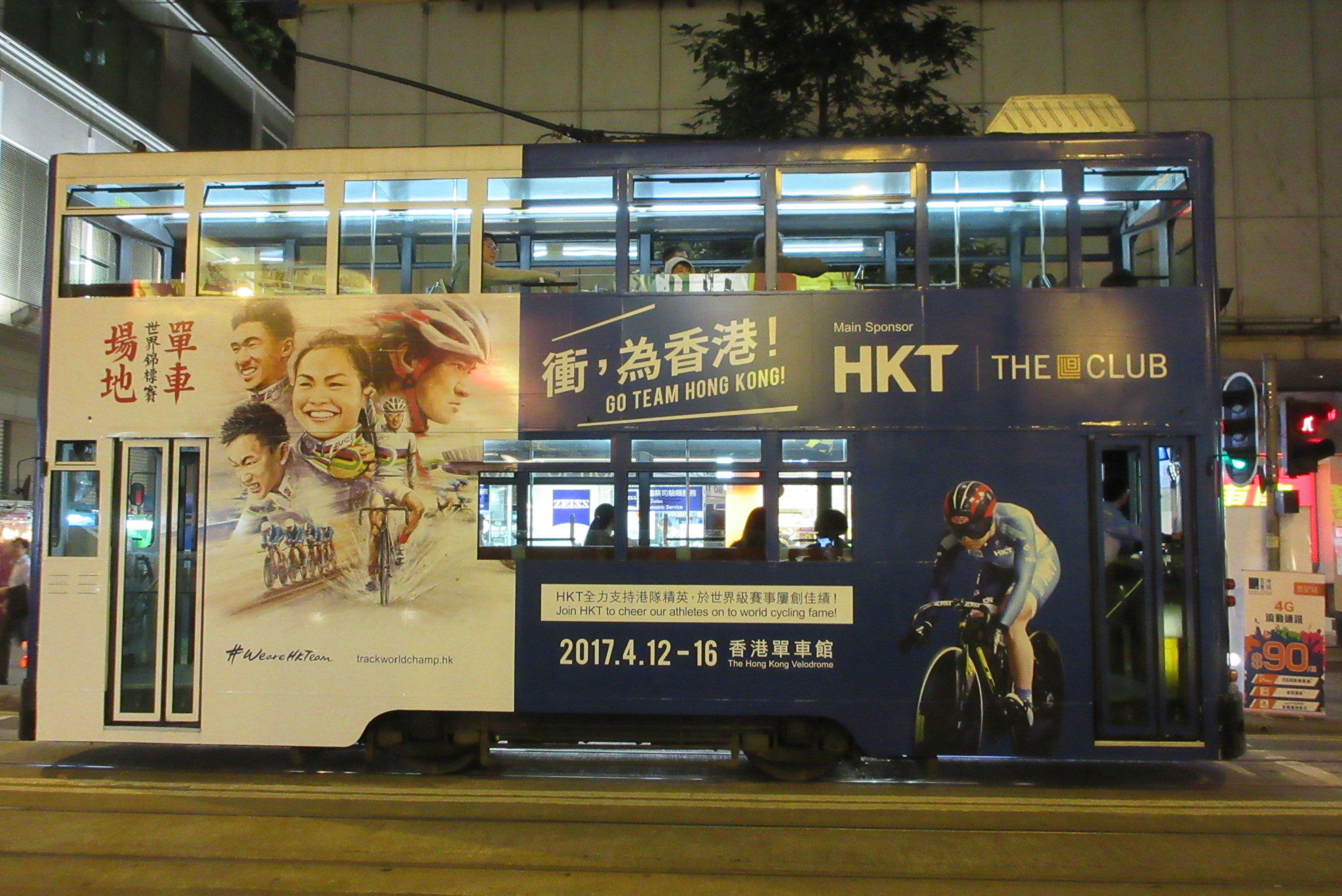 HKT Hong Kong Velodrome tram body ads The Club in April 2017 Trackworldchamp 李慧詩 LEE Wai Sze Sarah